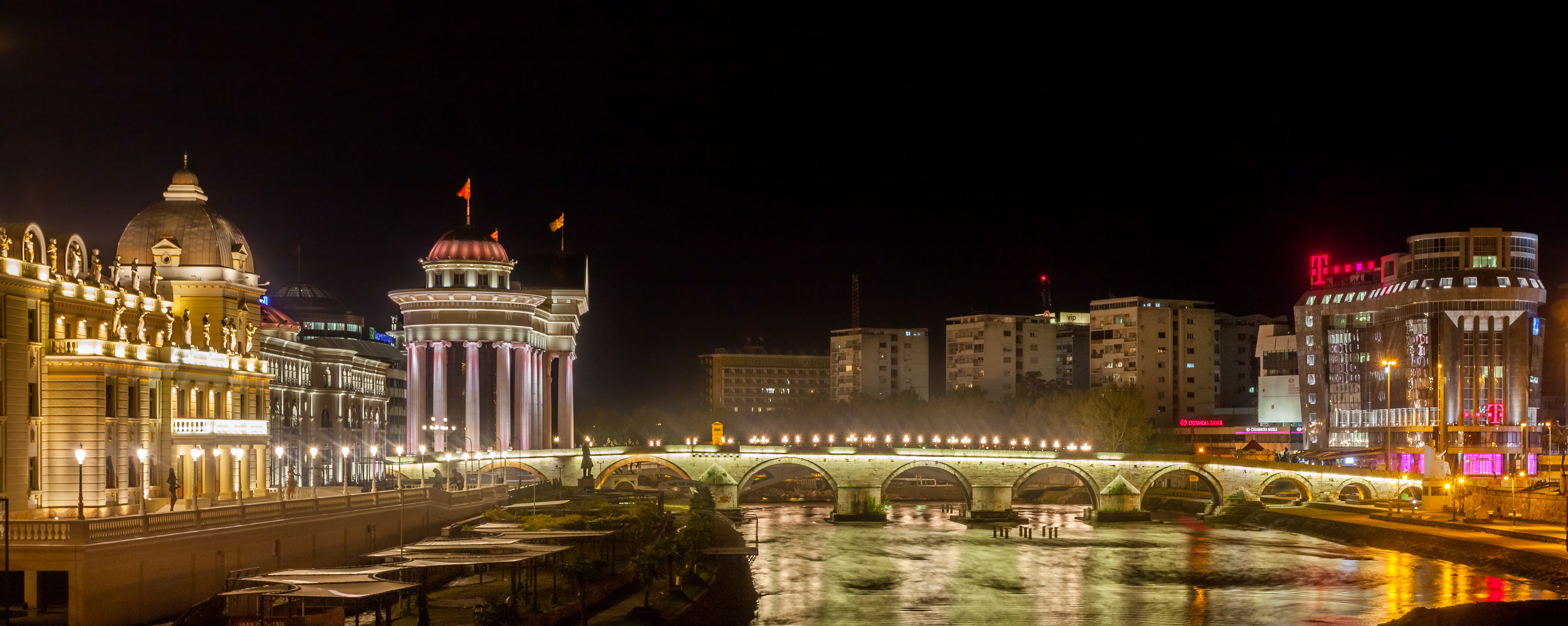 Stone Bridge, Skopje, Republic of Macedonia